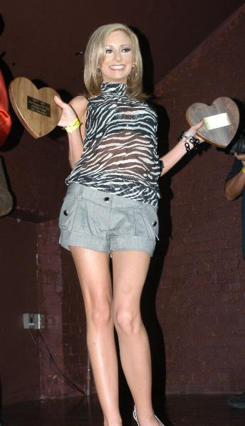 April 5 2007: XRCO Awards 2007.